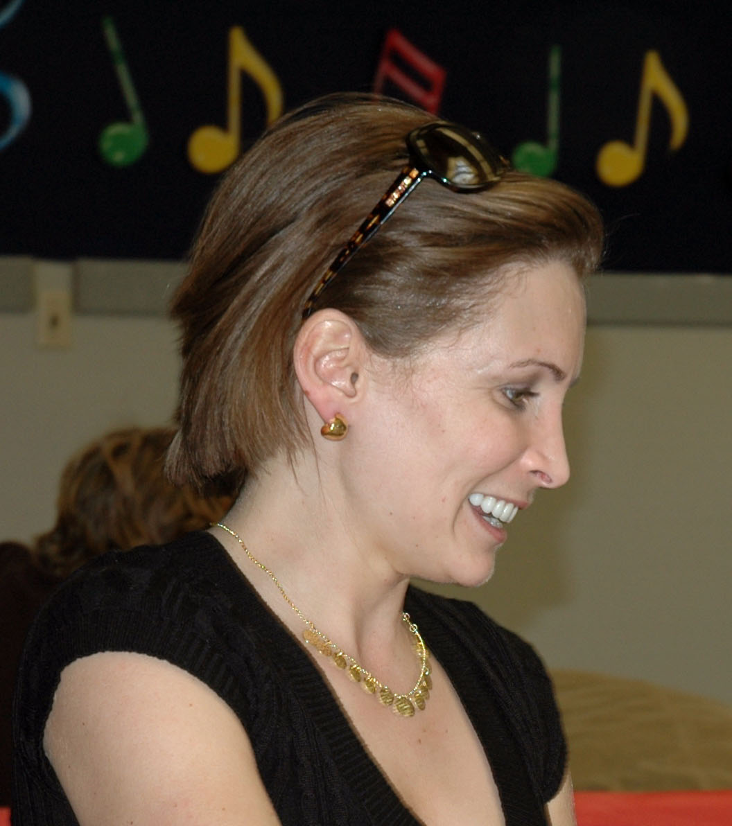 Olympic gold medalist Shannon Miller autographs a picture for a child at the Youth Activities Center at Naval Station Mayport. Miller visited the Mayport to meet and greet servicemembers and their families as part of a morale, welfare, and recreation tour.